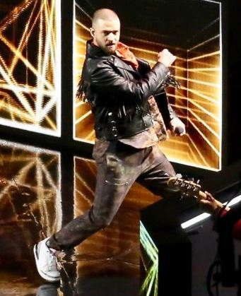 Super Bowl LII halftime show